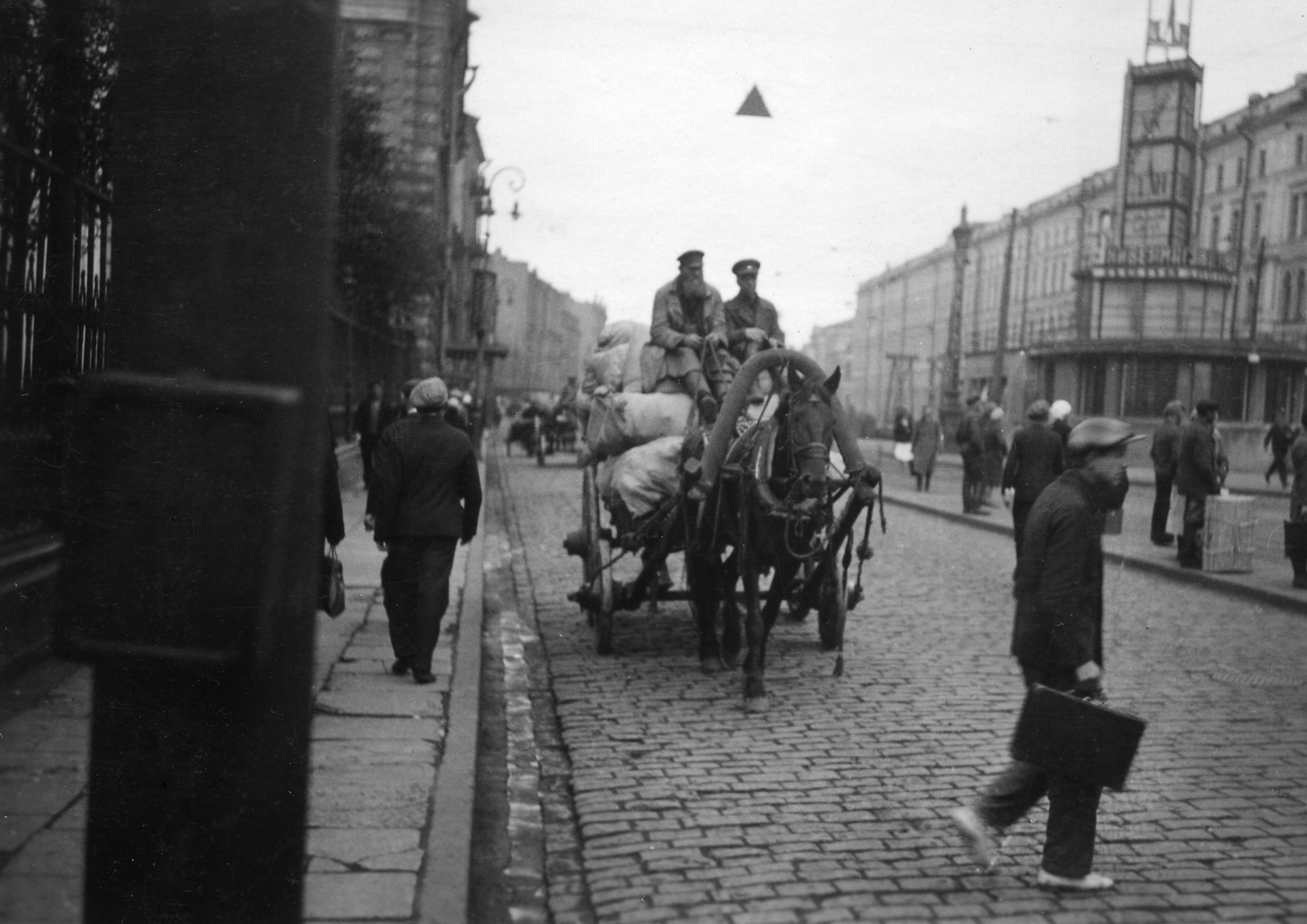 Original title: Street life in the Soviet Union - Horse and carriage (1935) Format: Fotopositiv Dato / Date: 1935 Fotograf / Photographer: Eirik Sundvor (1902 - 1992) Sted / Place: Sovjetunionen - Moskva? Eier / Owner Institution: Trondheim byarkiv, The Municipal Archives of Trondheim Arkivreferanse / Archive reference: Tor.H46.B08.F22693 Merknad: From a journey to the Soviet Union by Eirik Sundvor in 1935. Eirik Sundvor (1902 - 1992) was a journalist for the newspaper Avisa Nidaros between 1924 and 1940 and from 1945 to approx 1957. Sundvor fled with his wife to England during World War Two where he served as redaksjonssekretær(?) in "Norsk Tidend". Sundvor was well familiar with Russian and was therefore sent on an expedition to Finmark during 1944/45 along with Colonel Arne Dahls. During this expedition he held the rank of Major. Sundvor published the first free Norwegian news paper in Finnmark in 1945. Sundvor moved back to his home town Bergen after Avisa Nidaros went bankrupt where he worked as a correspondent for Dagbladet, covering Western Norway.